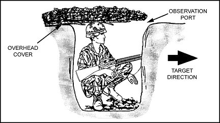 Spider hole diagram